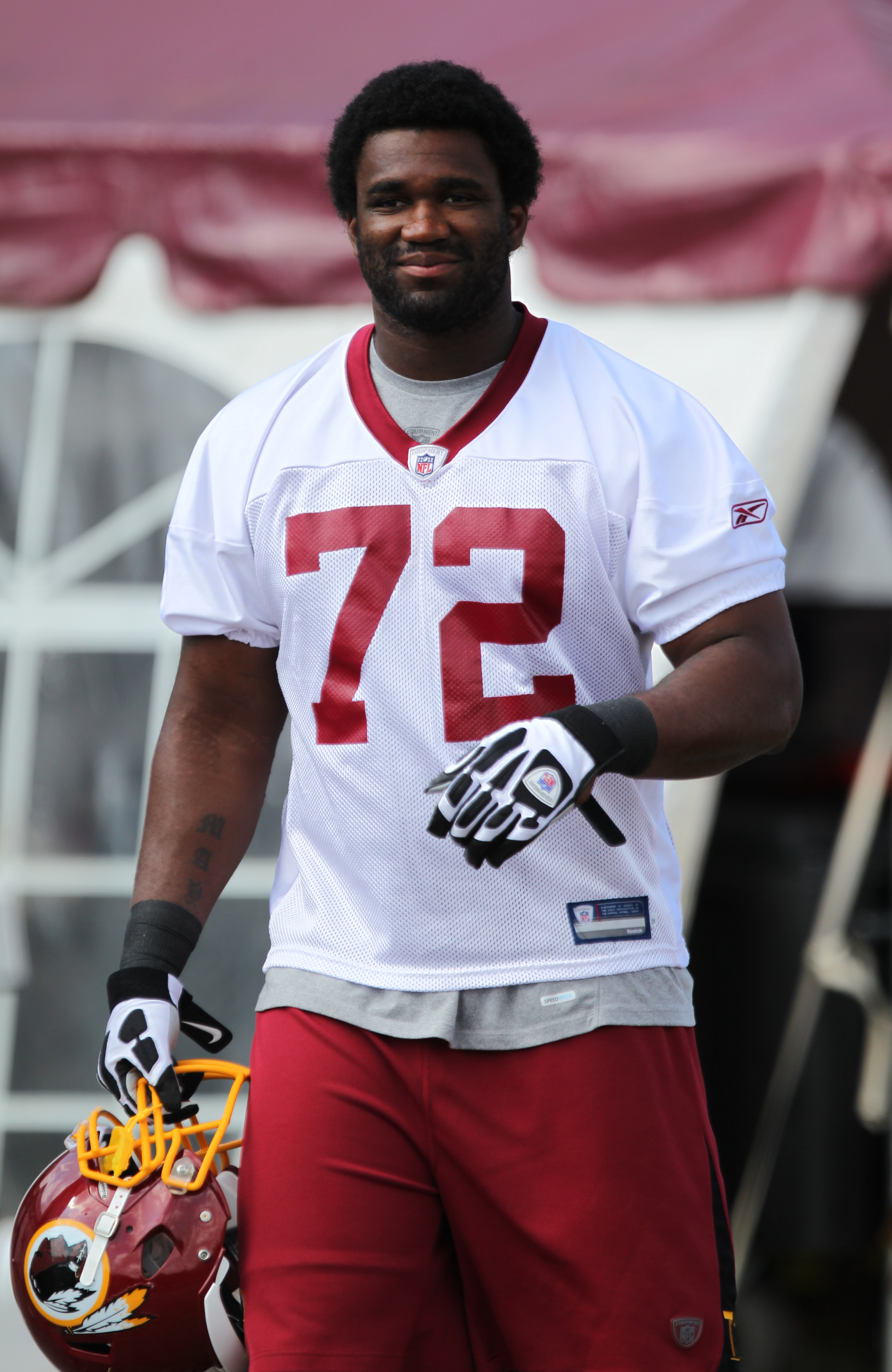 Willie Smith at Washington Redskins Training Camp August 4, 2011